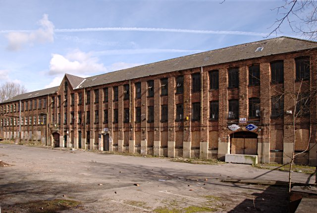 Bath Street Mills. The earliest part of Bath Street mills was built c.1848 as a silk spinning and weaving mill by Derby industrialist George Holme. In 1857 they were described as Patent Elastic Fabric Manufacturers, making silk elastic webs and gussets. The mill was extended to the south in 1868-9, from designs by architect Samuel Morley and single storey weaving sheds were added over the yard areas to the rear to provide space for the manufacture of woollen goods. In 1892 200-300 people were employed here. George Holme & Co. earned numerous International awards and prize medals for its products in the 1860s, 1870s and 1880s. They went out of business in the 1920s. The mill is now empty and faces an uncertain future.